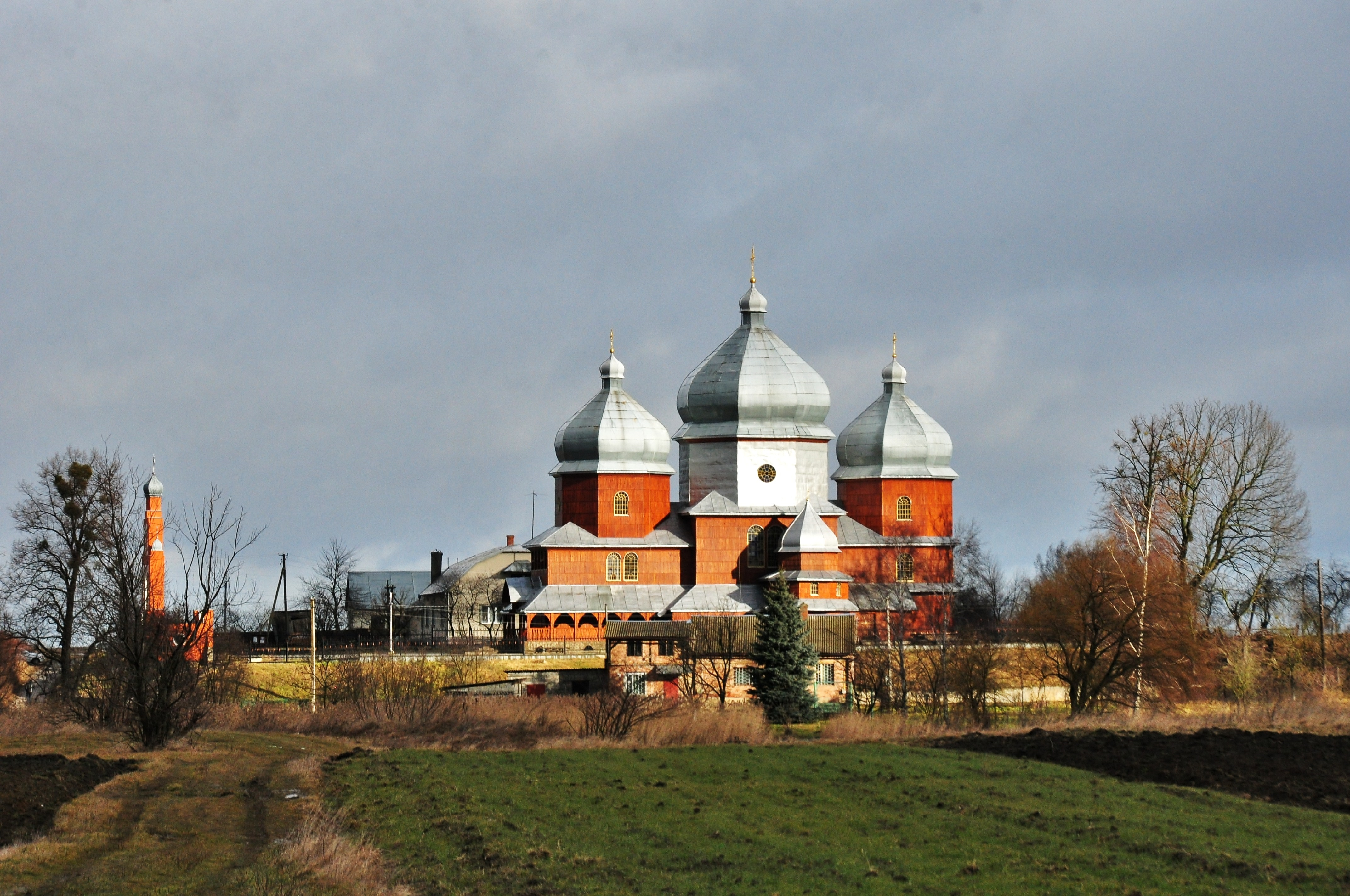 Church of the St John the Baptist in Silec, Kamianka-Buzka Raion, built 1929. Architect Vasyl Nahirnyi.